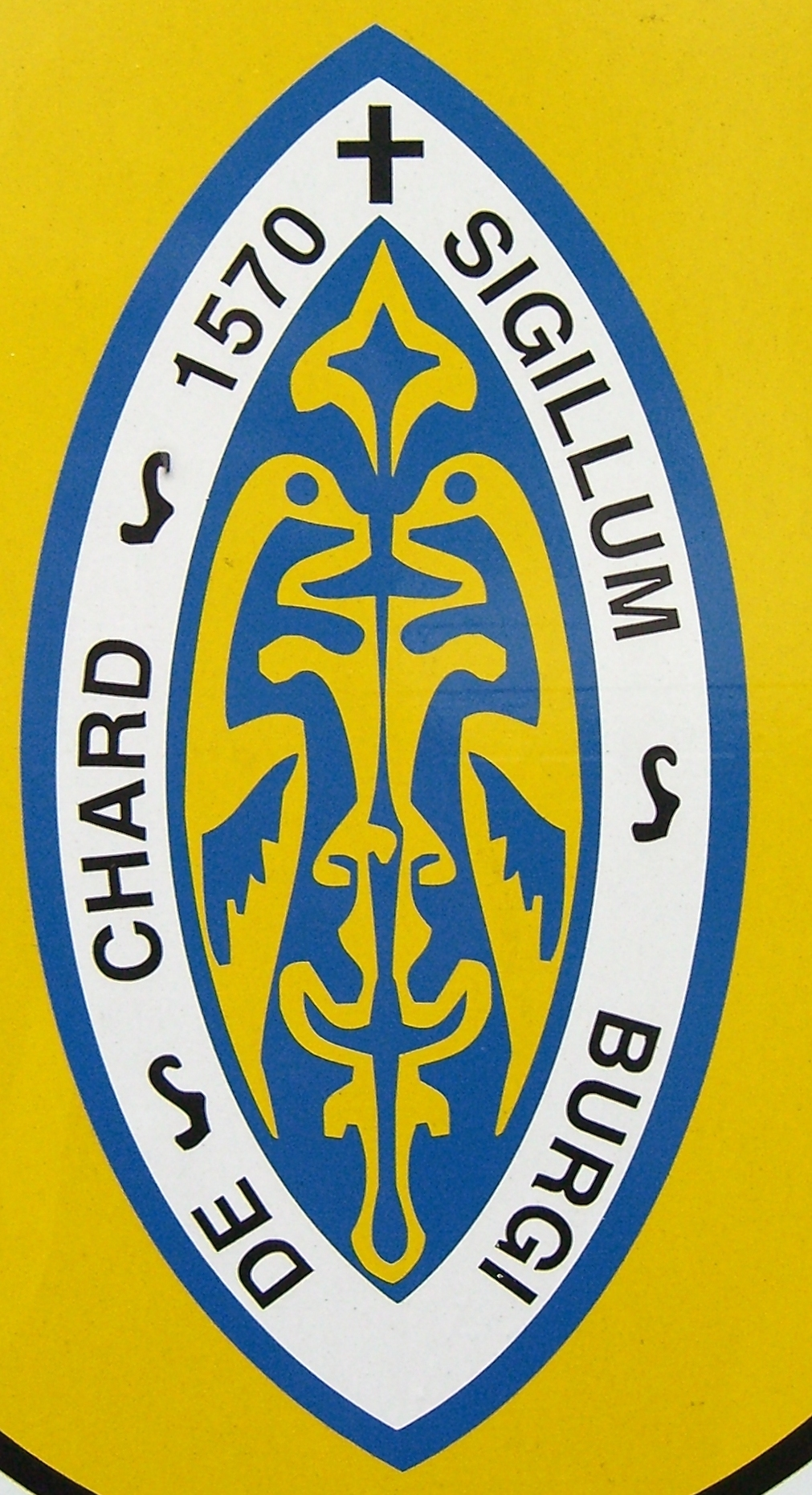 coat of arms of Chard